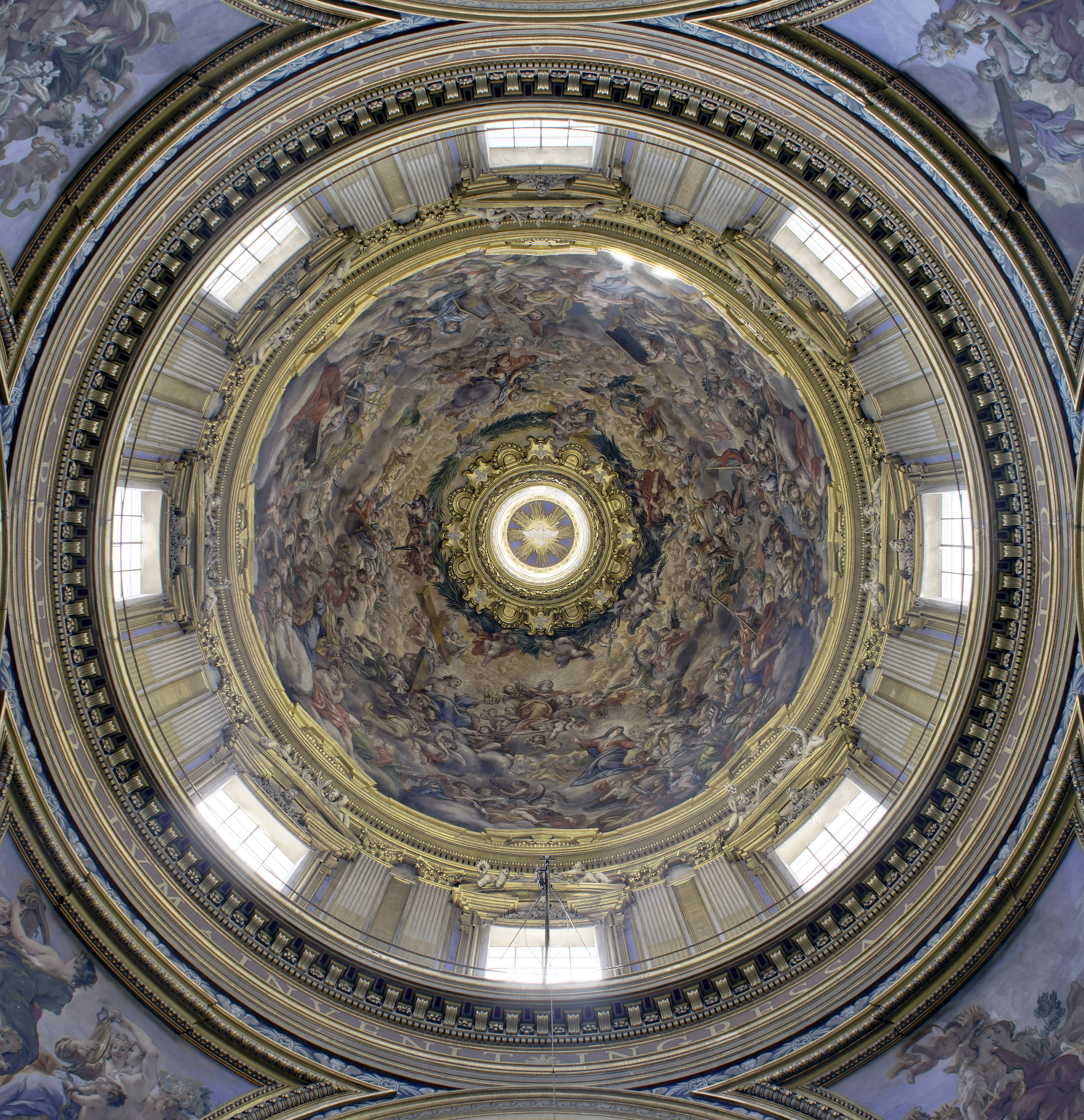 Dome of Sant'Agnese in Agone (Rome)